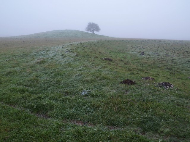 Bush Barrow "In the 1720s William Stukeley had called it “the bush barrow” after trees planted on the top (though the “county people” knew it as “the green barrow”)" . "This very large bowl barrow in the Normanton Down barrow group, just south of Stonehenge, measures over 40m in diameter and stands today 3m high. It was excavated in 1808 by William Cunnington and Sir Richard Colt Hoare. The primary burial was of a tall, stout, adult man, buried lying on his back. The grave goods placed with him show that this was a princely burial from about 1900 -1700 B.C. It is Britain's richest and most important Bronze Age burial" . In the foreground is a round barrow. Together they form part of the Normanton Down Barrows. The first link gives much detail about the excavation of Bush Barrow and the site as a whole.